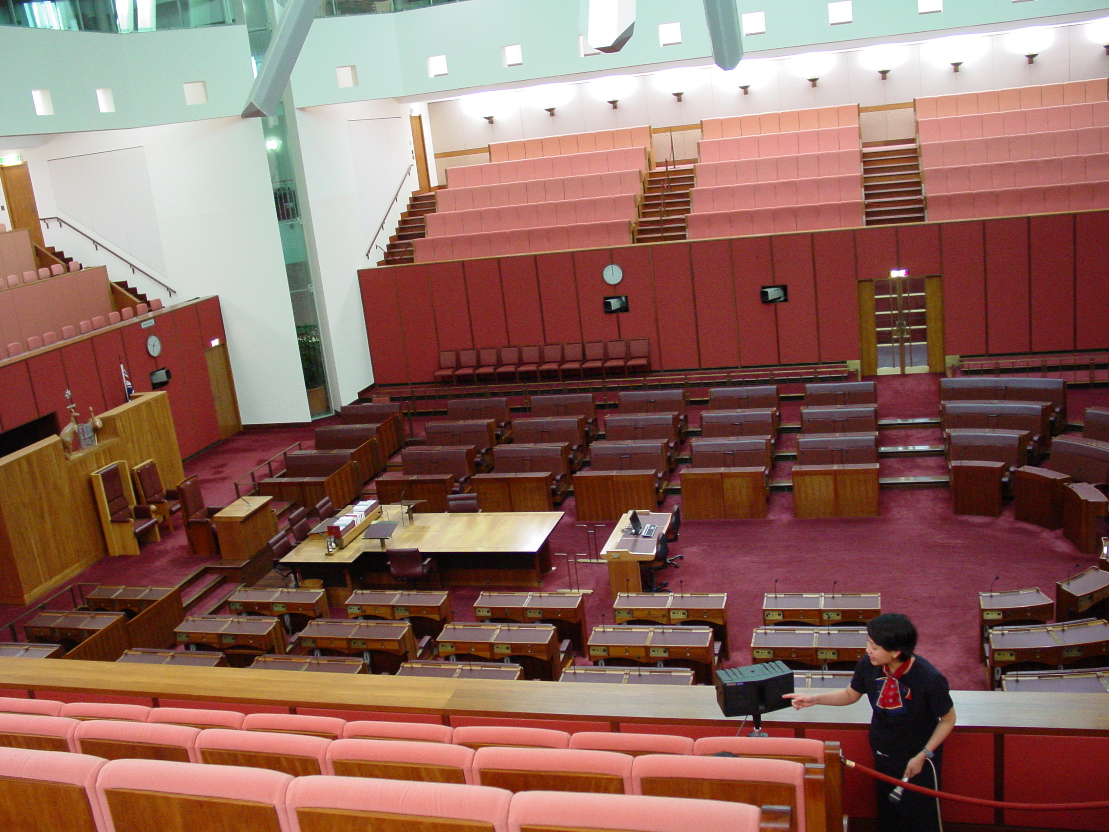 Australian Senate Source